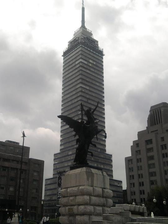 Torre Latinoamericana, vista desde la explanada del Palacio de Bellas Artes